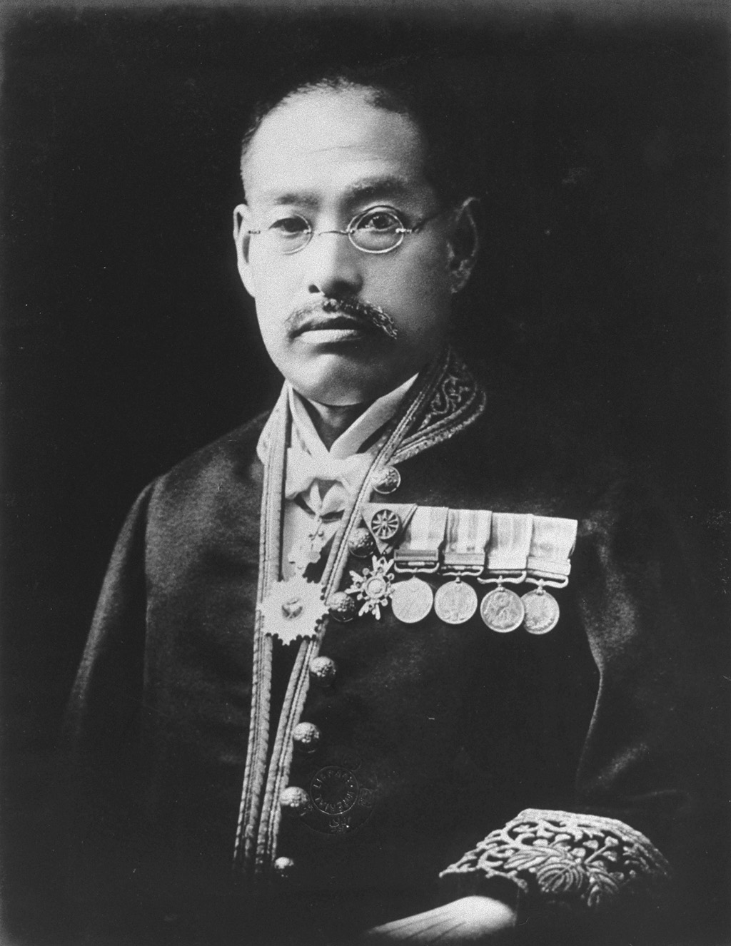 Portrait of Shimose Masachika (下瀬雅允, 1860 – 1911)